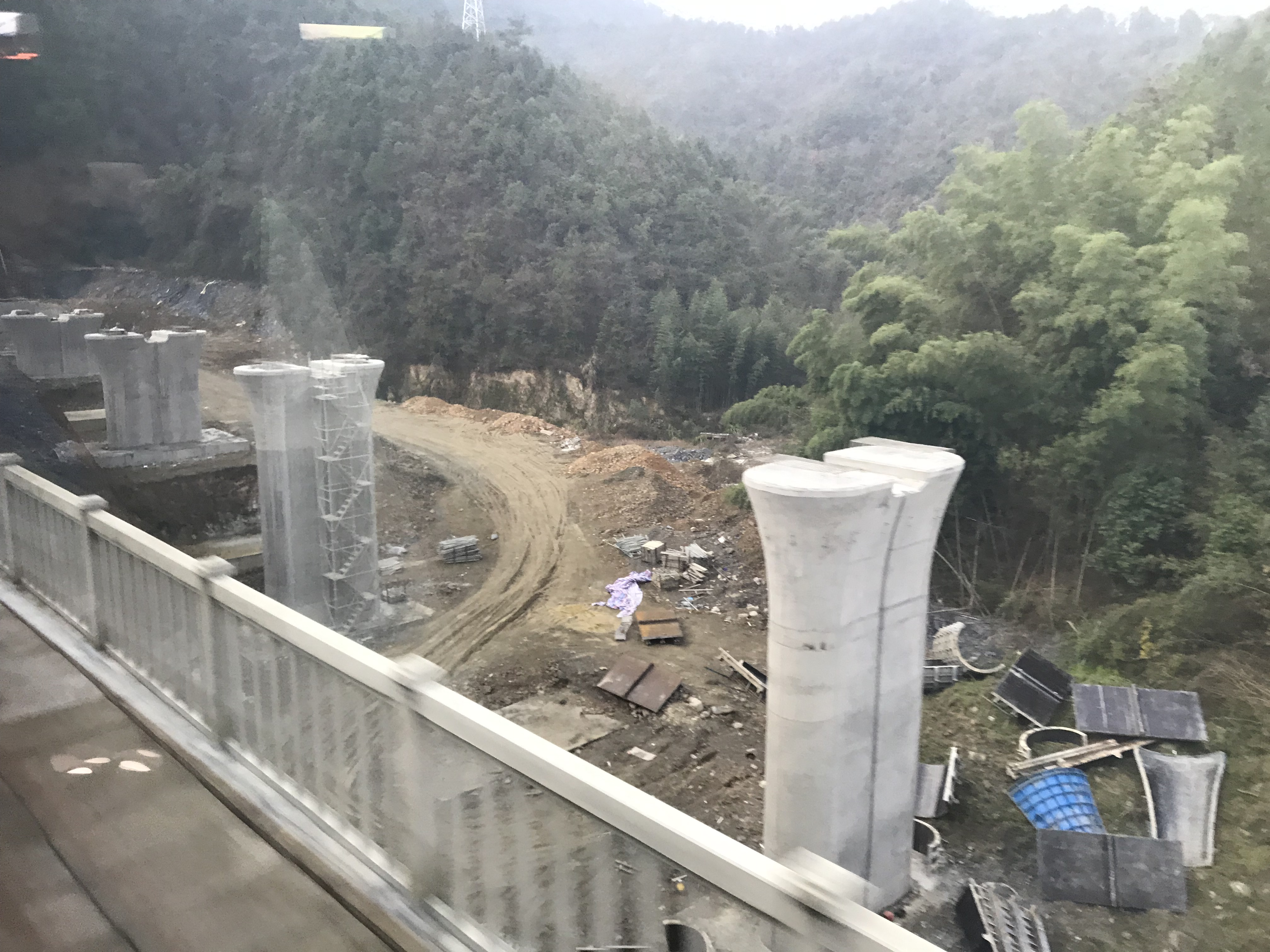 201812 Hangzhou-Quzhou HSR Construction near Jiande Station